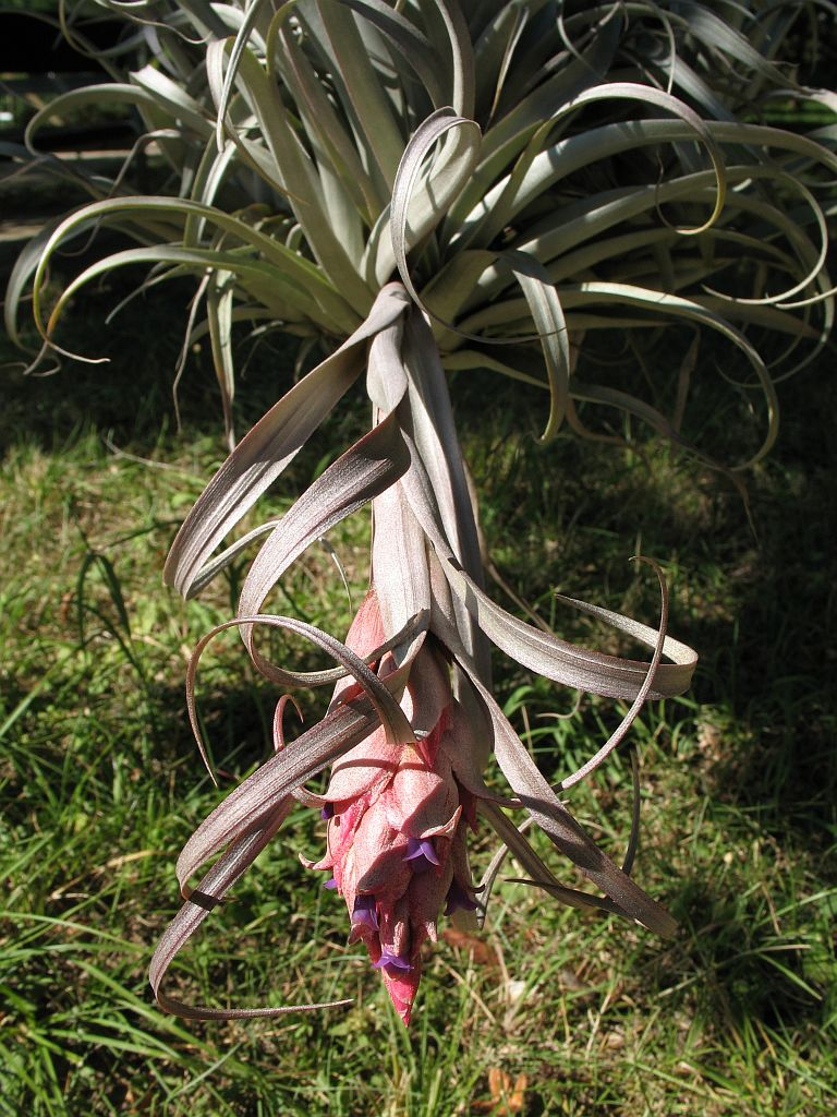 Tillandsia sphaerocephala in cultivation at the Botanical Garden of Heidelberg, Germany.